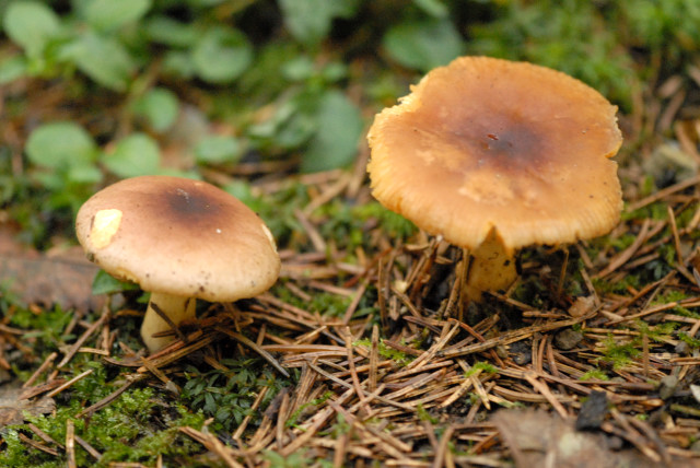 Russula puellaris from Commanster, Belgium. The determination of the species shown in this picture has been verified.